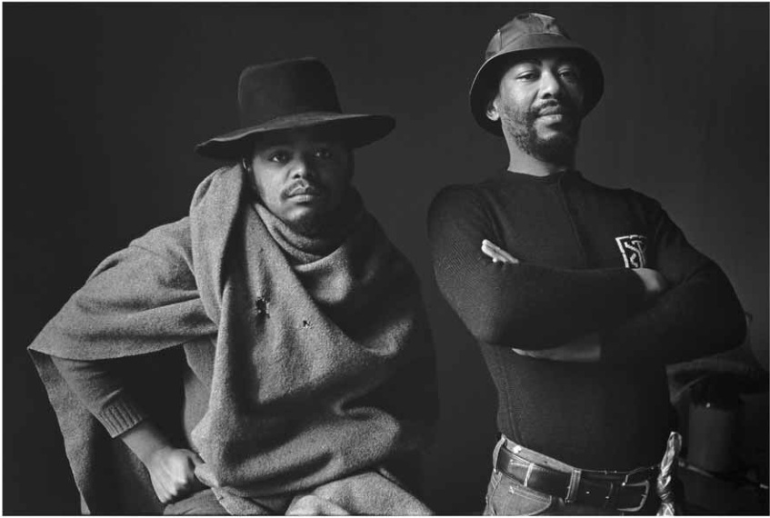 Dumile Feni and Louis Moholo, exiles in London, 1971